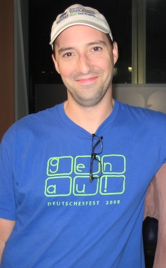 Tony Hale from Arrested Development among other shows, movies, commercials. Thanks to Tina for having a camera in her pocket & being there at the right time.